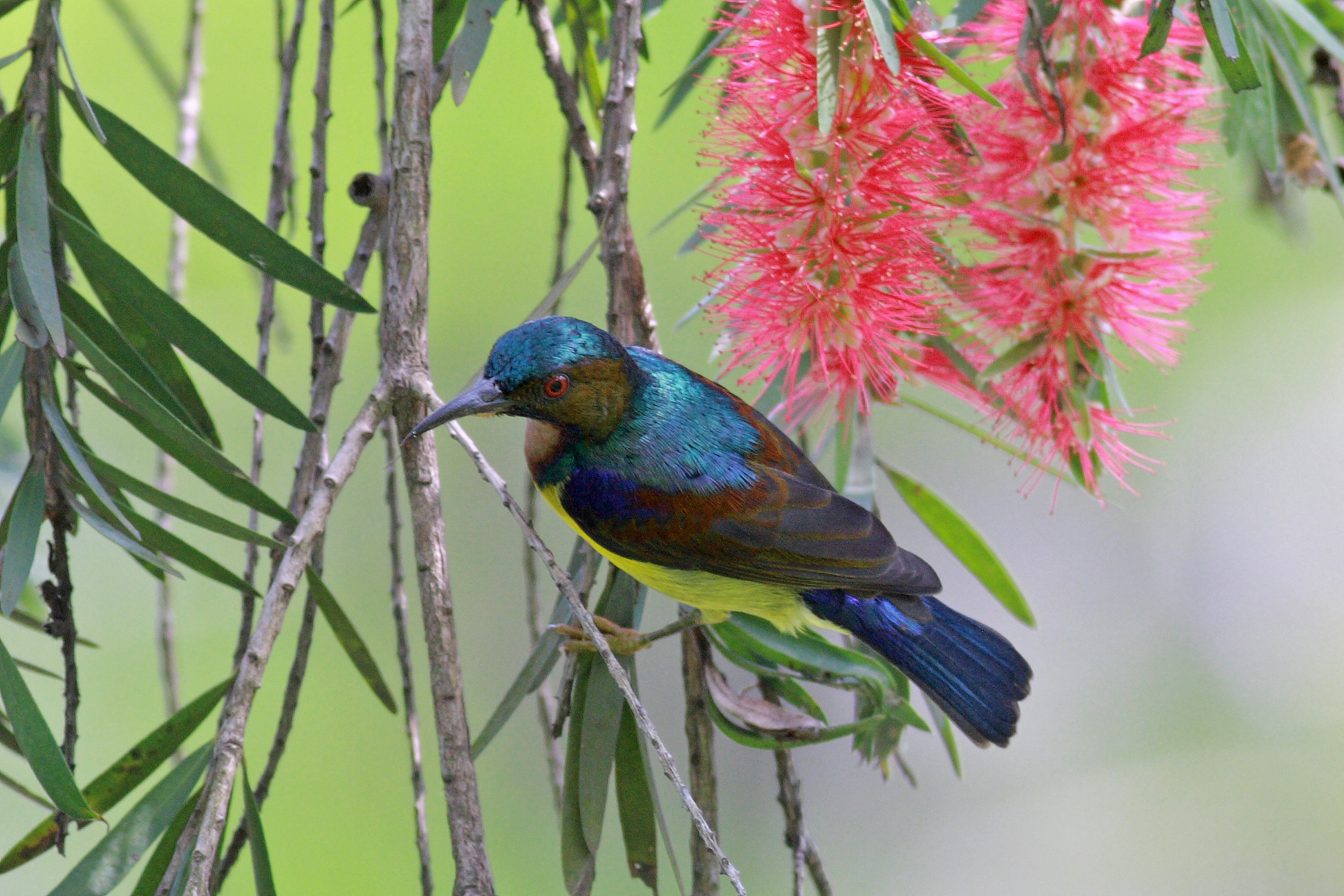 A male Brown-throated Sunbird (or Plain-throated Sunbird) Anthreptes malacensis photographed in the Japanese Garden, Singapore